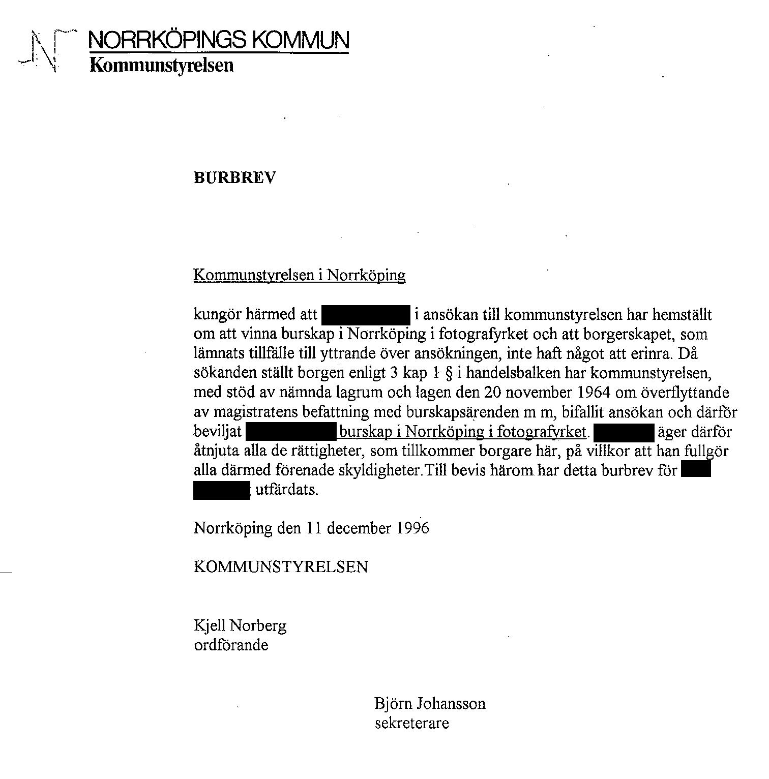 Ett burbrev i fotografyrket, utfärdat av Norrköpings kommun.